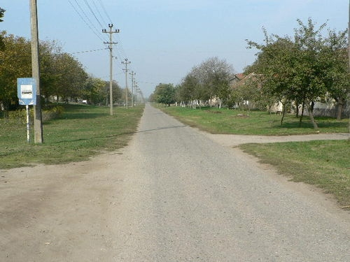 Susara